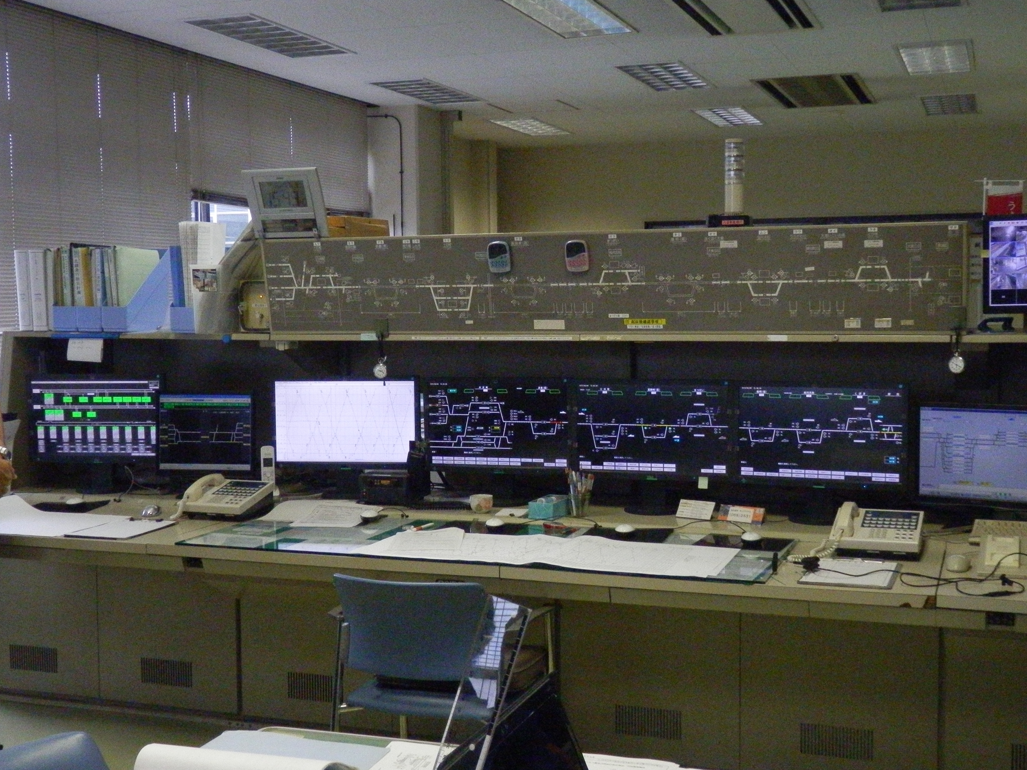 Railway operation command office of Hokuetsu Express